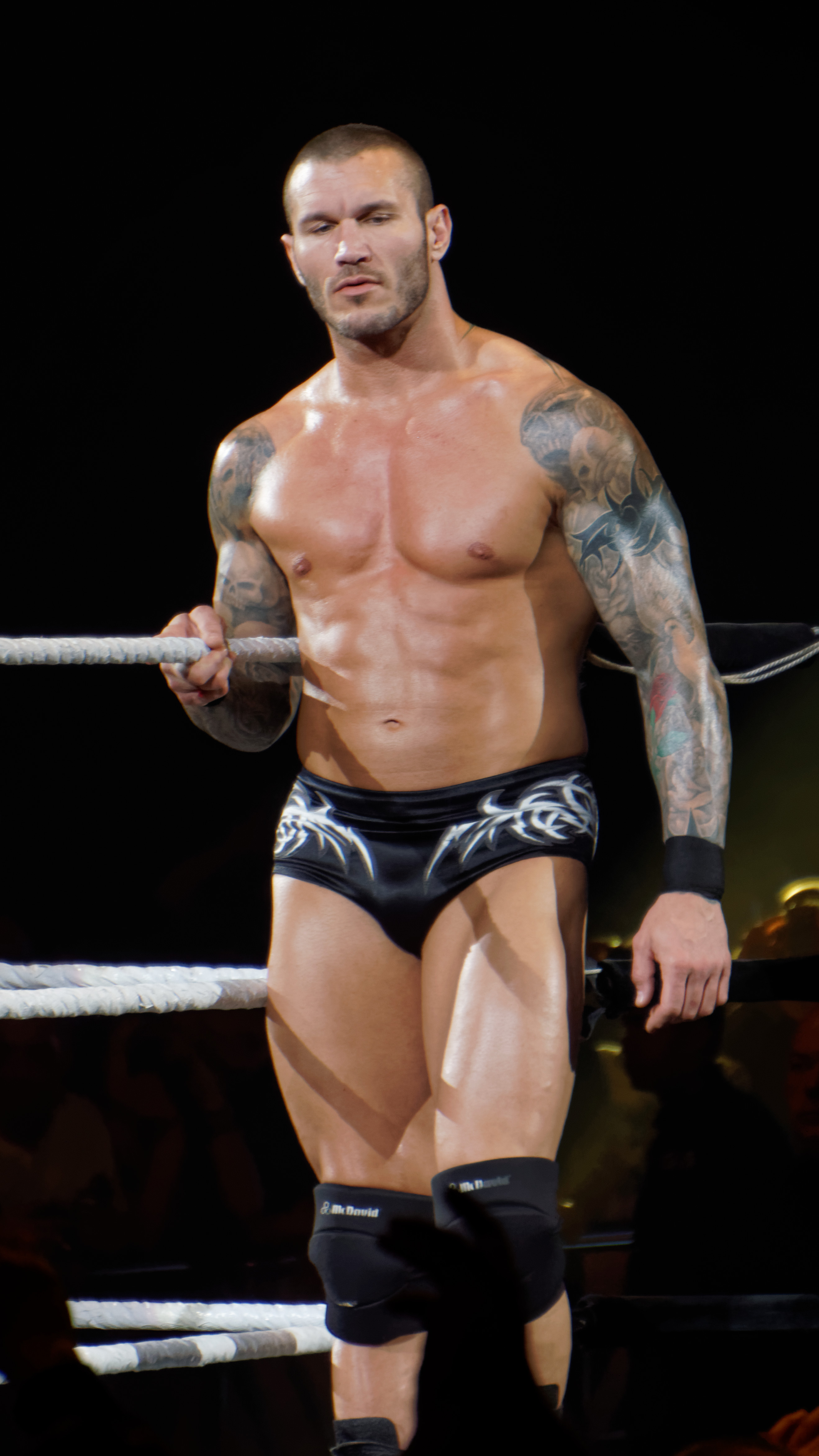 Randy Orton in May 2014.